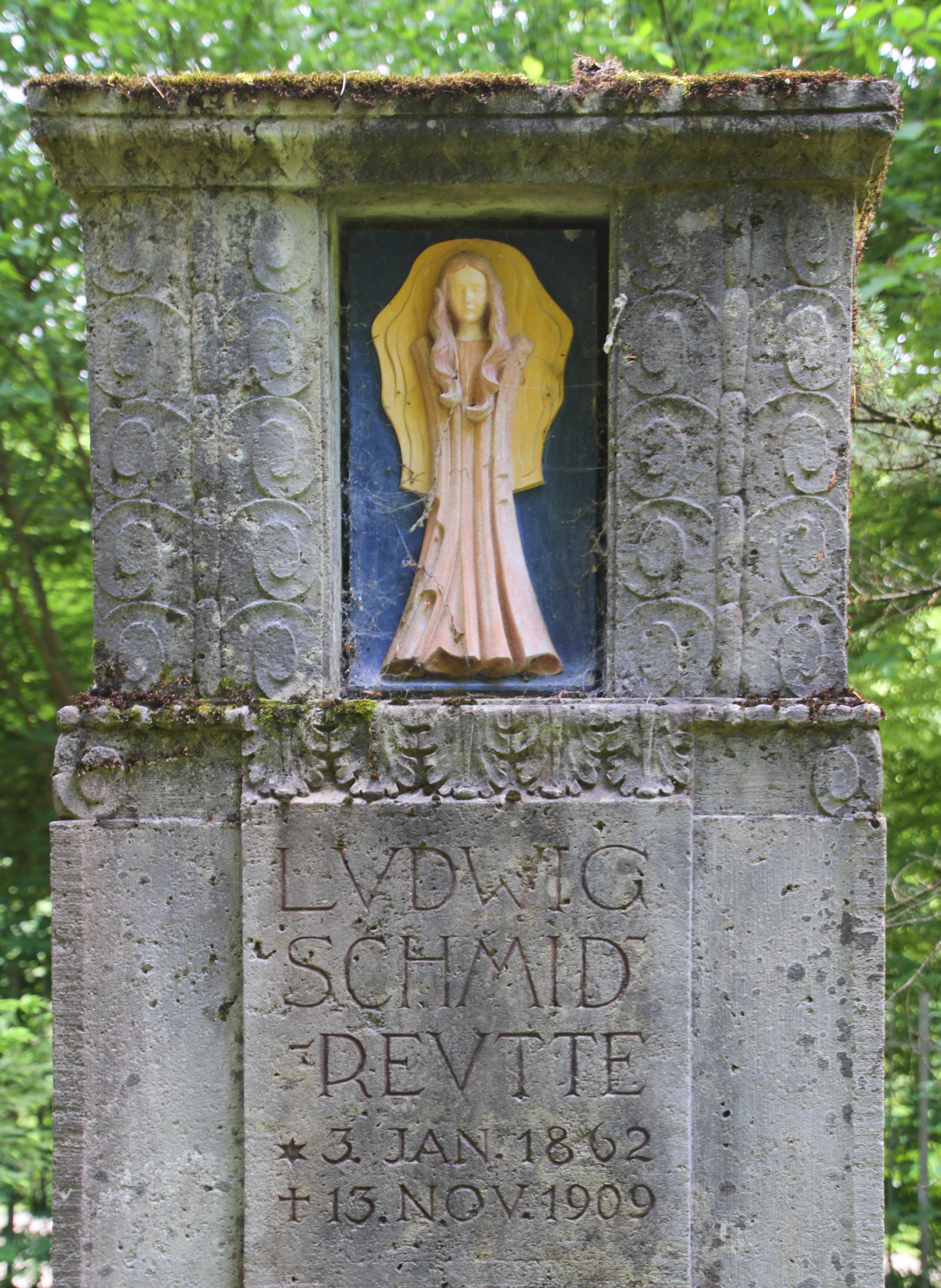 Cemetery Achern-Illenau